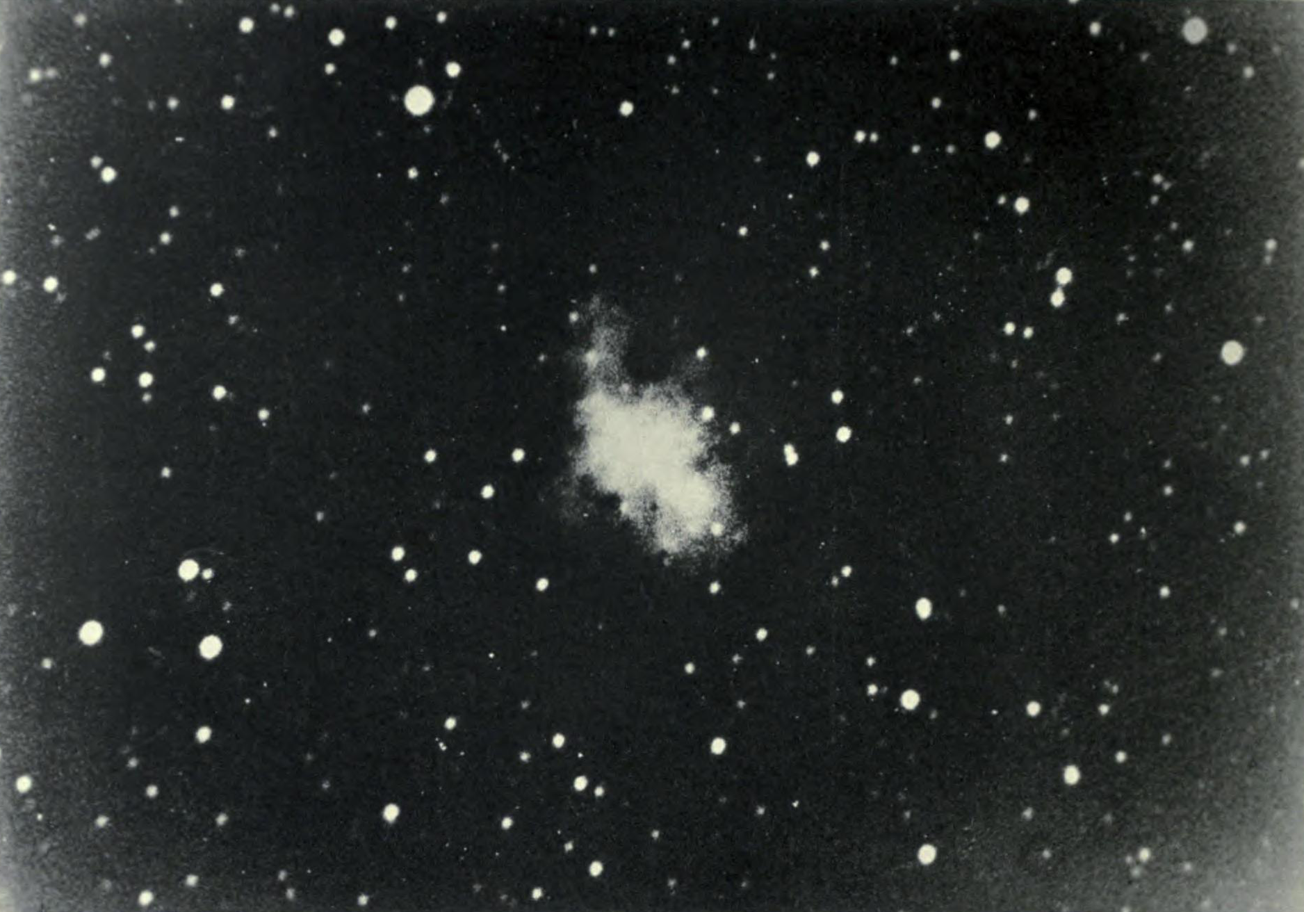 NEBULA M. 1 TAURI. Public domain photo of from A Selection of Photographs of Stars, Star-clusters and Nebulae, Volume II, The Universal Press, London, 1899. Author (Isaac Roberts) died on 17 July 1904